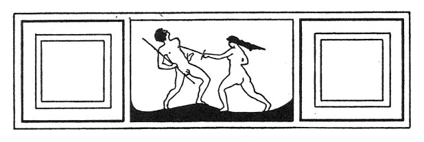 Illustration to Ovid's Art of Love